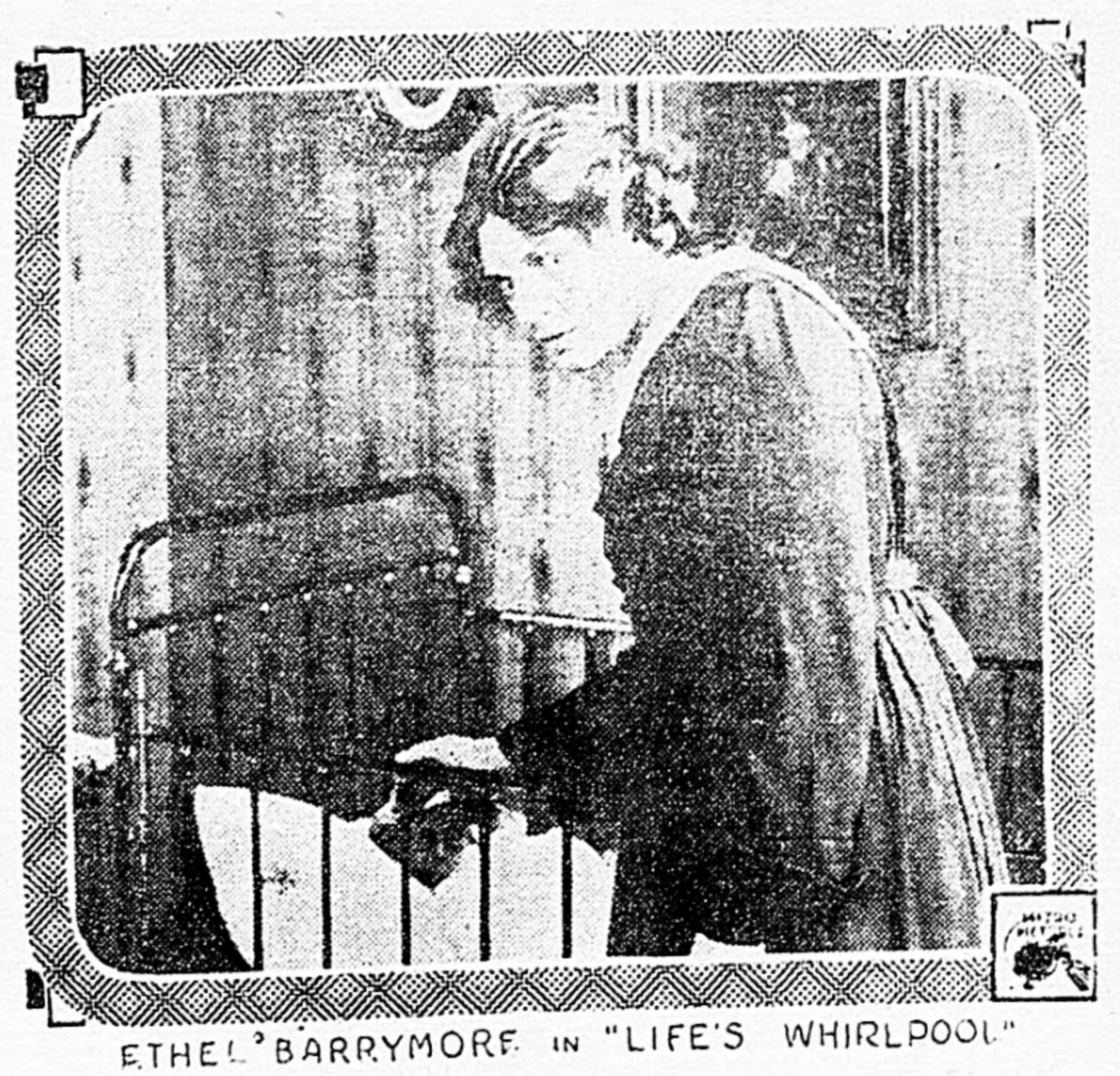 Life's Whirlpool newspaper publicity photo